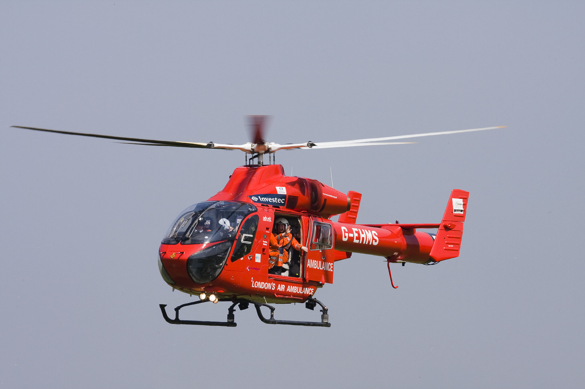 Taken at Biggin Hill Air Show 2008